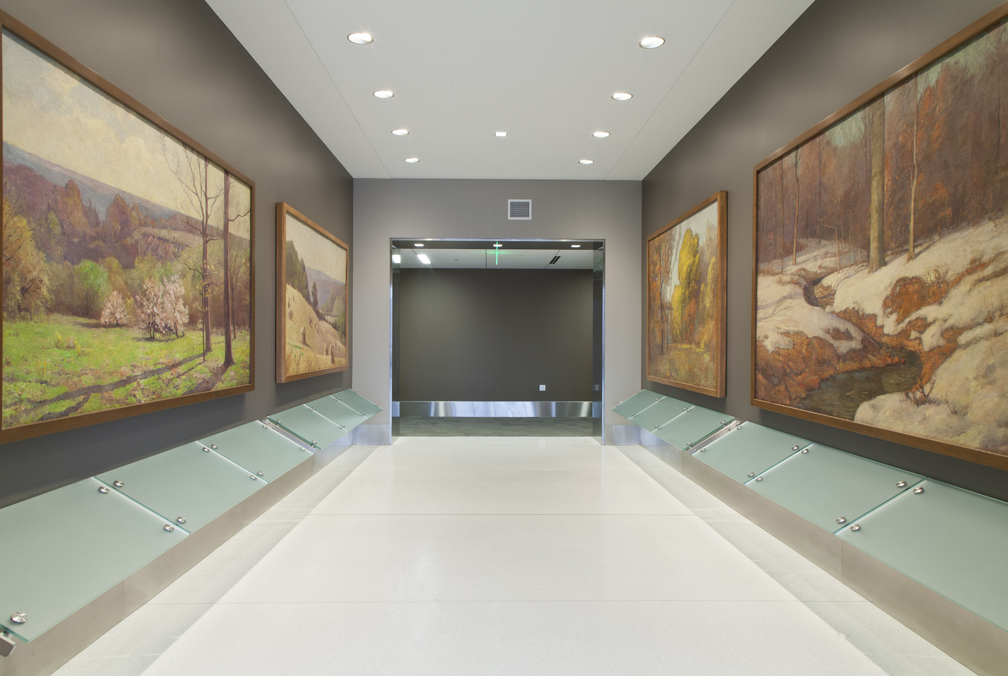 A view of T.C. Steel mural fragments showing the four seasons.